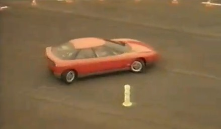 Citroen Activa Prototype from 1988